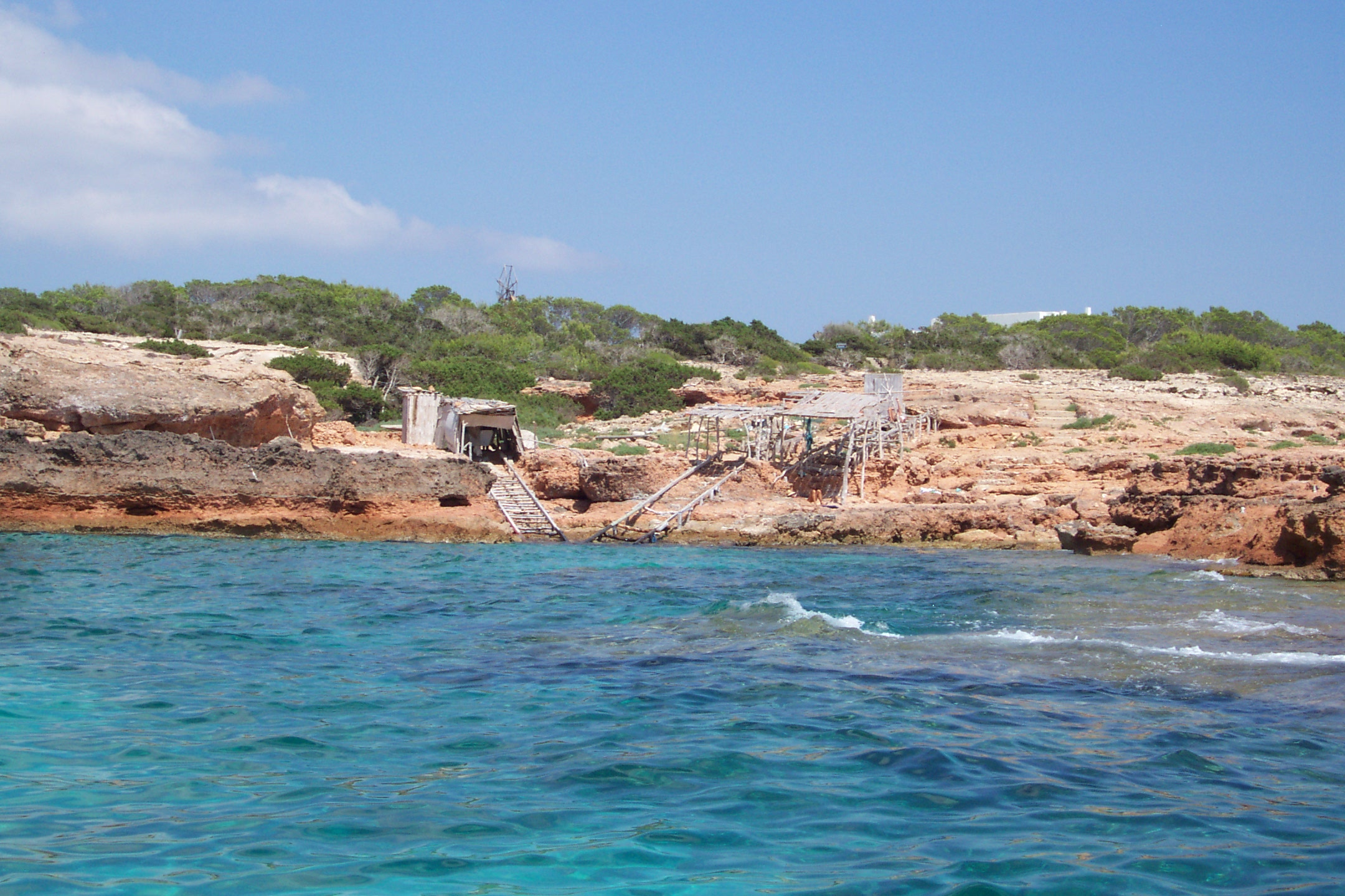 A view of the coastline of Formentera very close to Cala Saona.